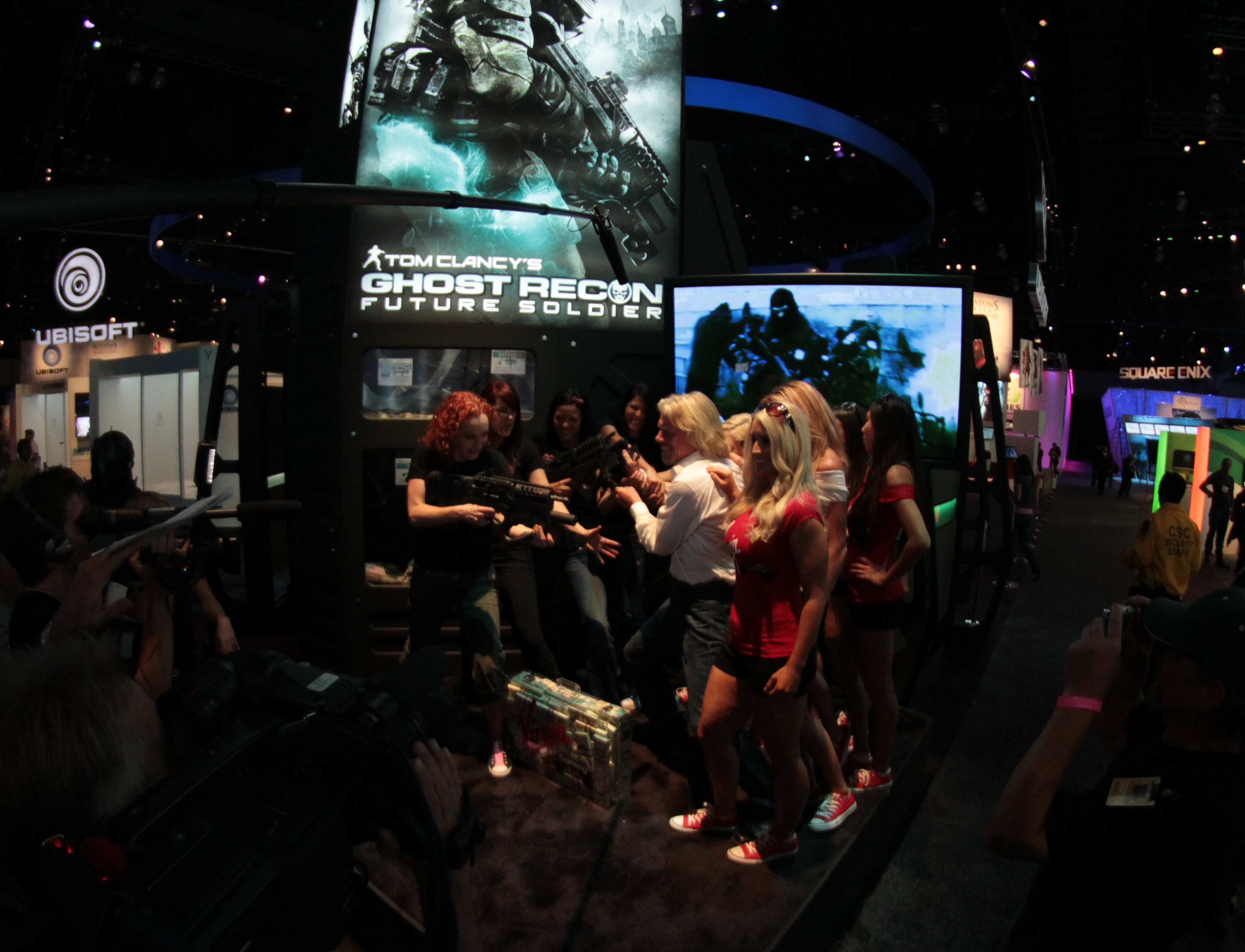 Out of nowhere, these girls mugged Richard Branson